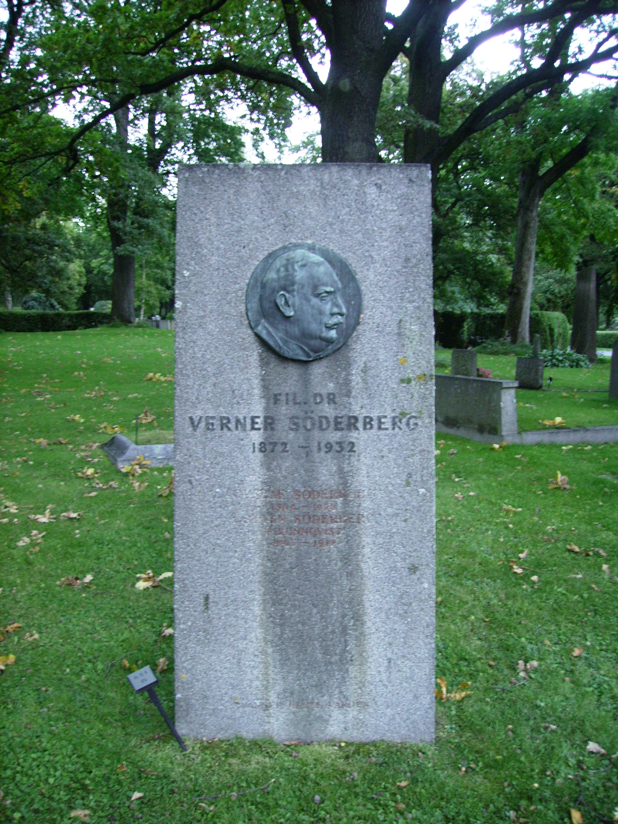 Picture of Verner Söderberg's grave at Norra begravningsplatsen in Stockholm